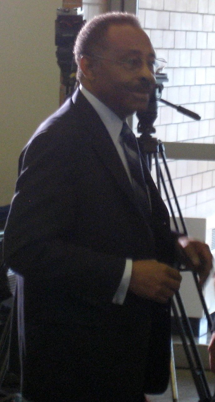 Roland Burris at Chicago Midway International Airport